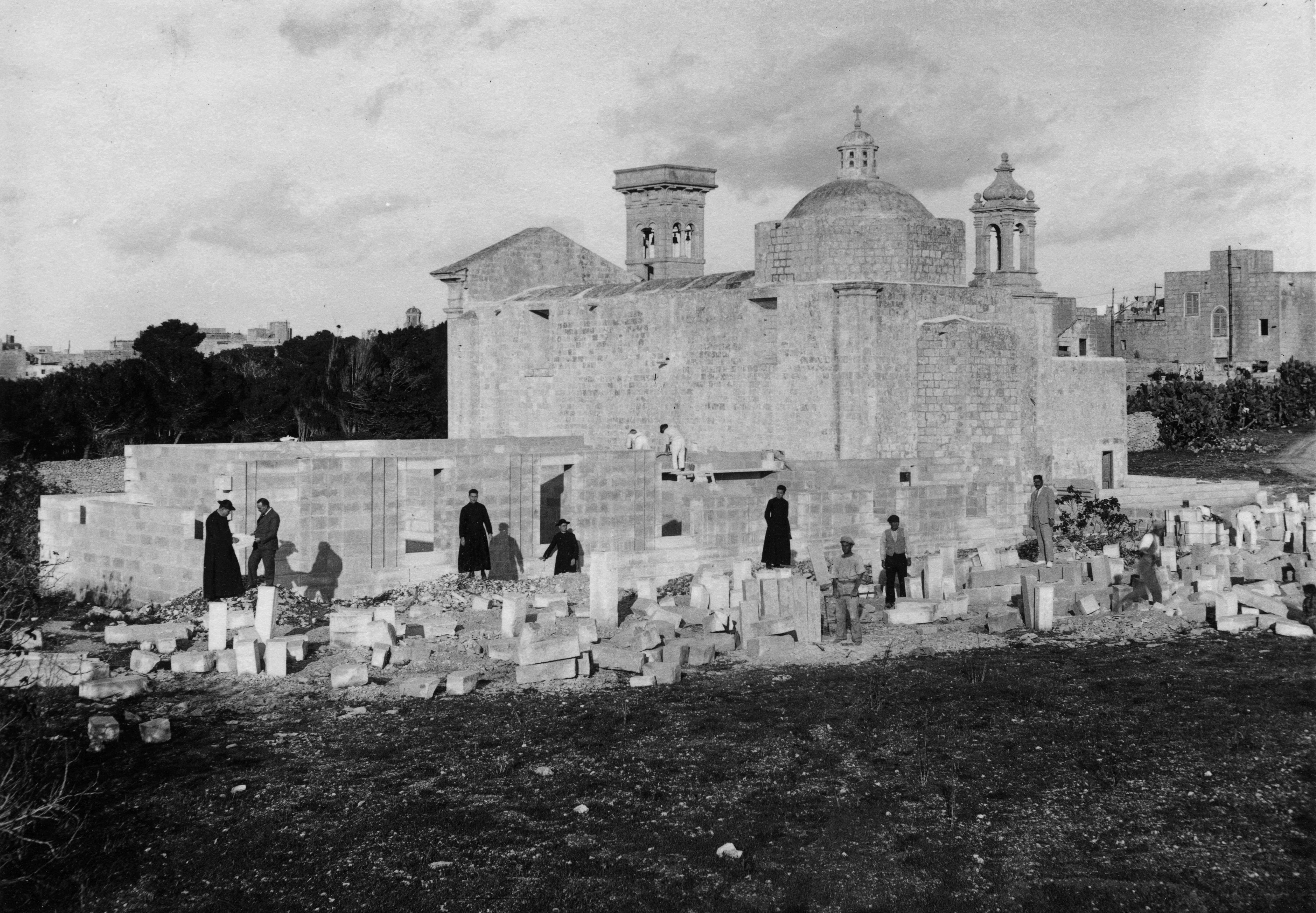 Building of the MSSP Motherhouse